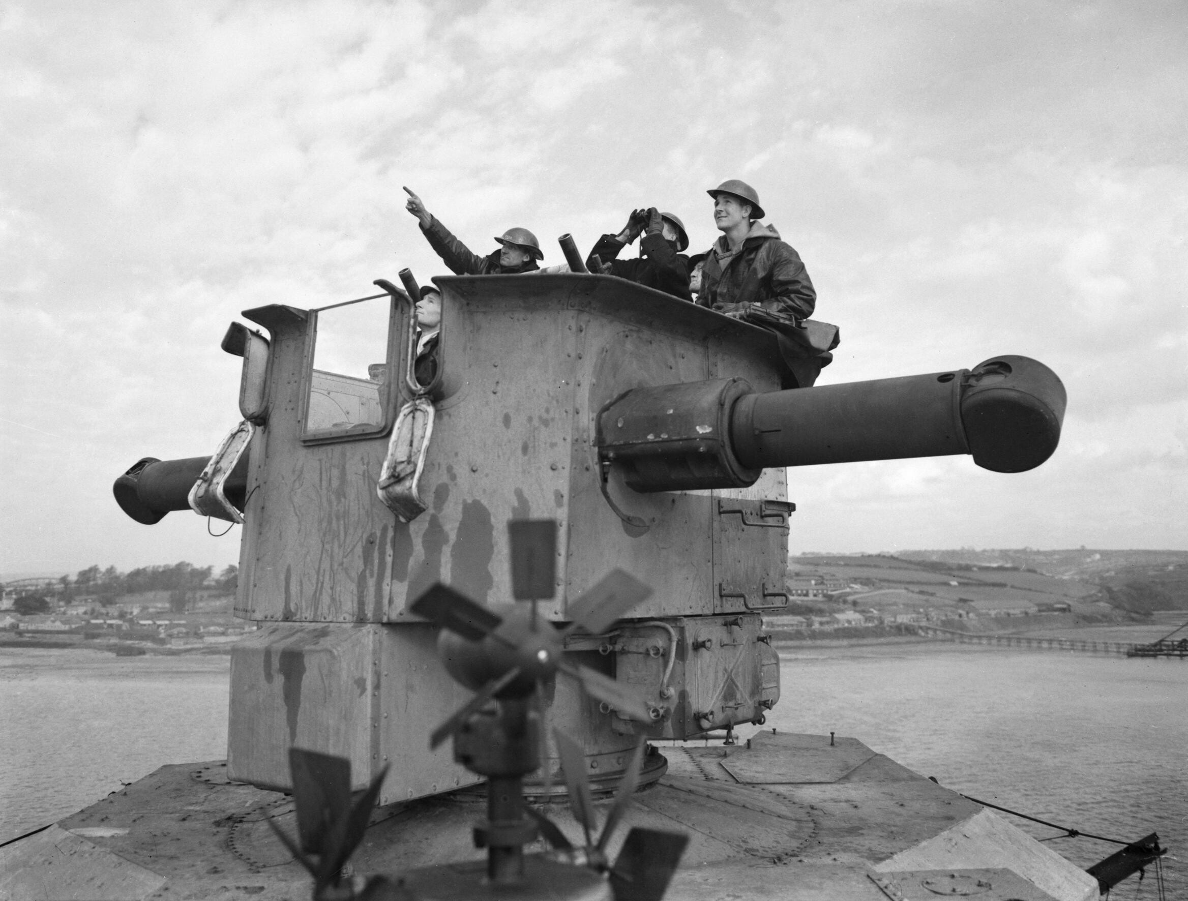 Crew manning range finder control tower high above the deck of HMS REVENGE.